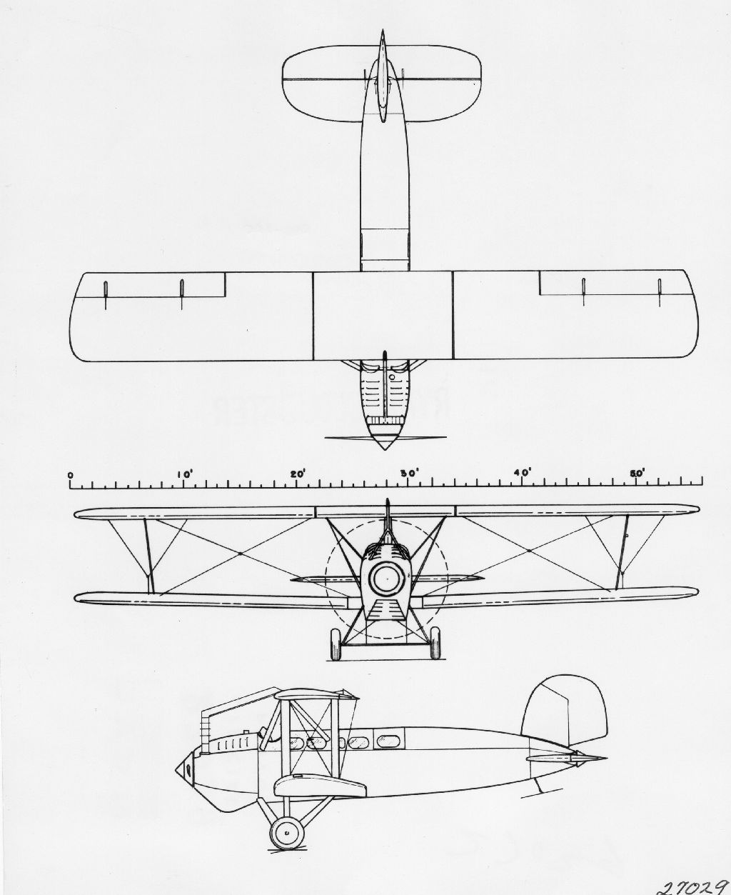 Davis-Douglas Cloudster in its modified configurations, used as a passenger plane.